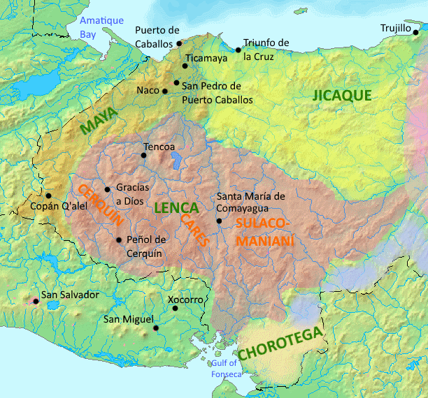 Important locations during the Spanish conquest of Higueras (western Honduras) overlain with ethnic divisions, and Lenca provinces. Sources: Chamberlain, Robert S. (1966) [1953] The Conquest and Colonization of Honduras: 1502–1550. New York, US: Octagon Books. OCLC 640057454. Fowler, William R. (1991) The Formation of Complex Society in Southeastern Mesoamerica. CRC Press. ISBN 0849388317. Lara Pinto, Gloria: Dicotomía de una ciudad: Las raíces indígenas de Tegucigalpa y Comayagüela Sheptak, Russell Nicholas; Kira Blaisdell Sloan and Rosemary Joyce (2011). "Honduras: Reworking Sexualities at Ticamaya" in Barbara Voss and Eleanor Casella (eds) The Archaeology of Colonialism, Sexuality, and Gender. Cambridge, UK: Cambridge University Press. ISBN 978-1-107-00863-2.